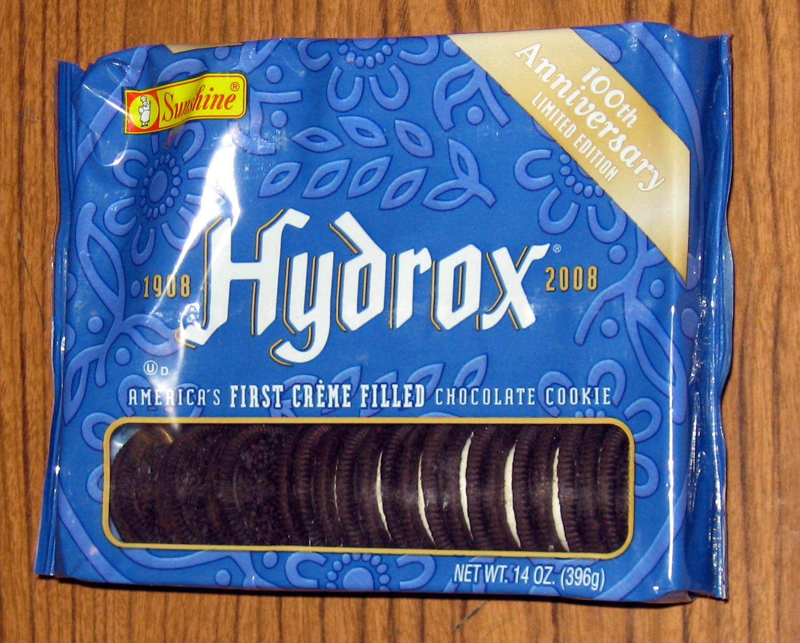 Centennial package of Hydrox (cookie)s purchased in New York City, early October 2008